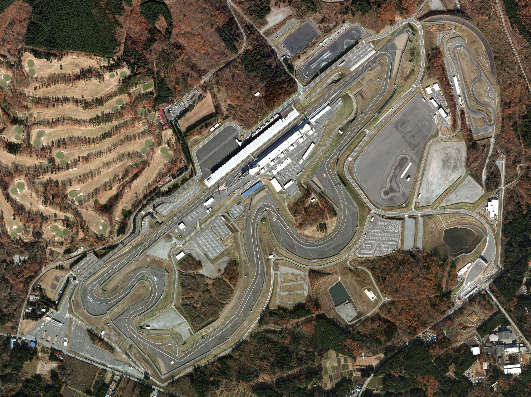 Aerial photograph of Fuji Speedway in 2007, Oyama, Shizuoka Prefecture, Honshu, Japan.